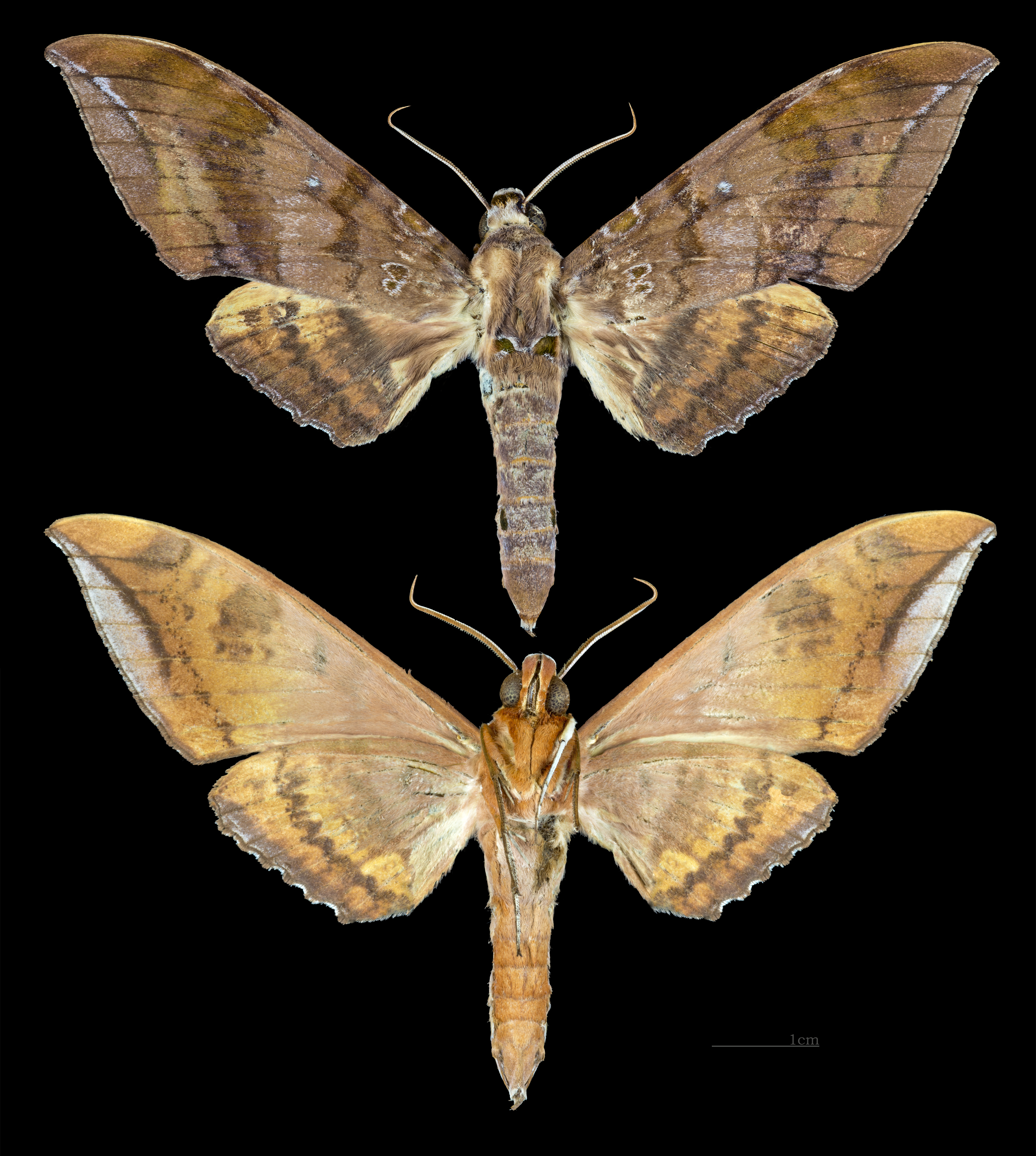 Ambulyx semifervens - Two views of same specimen Collection of the Mathematician Laurent Schwartz